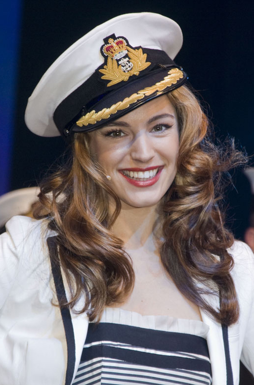 Kelly Brook at the January 2009 London Boat Show.